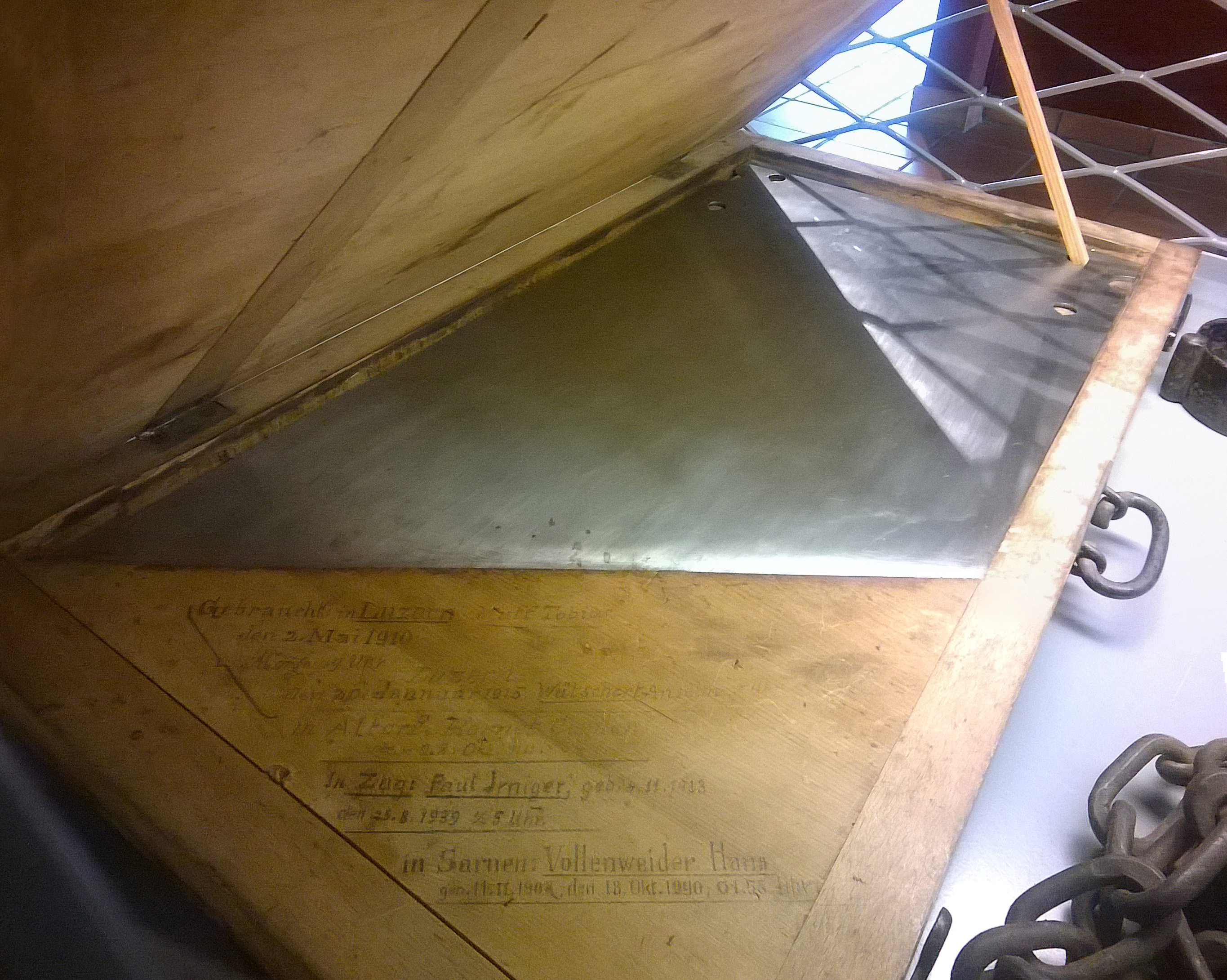 Detail of the Lucerne Guillotine, wooden box with guillotine